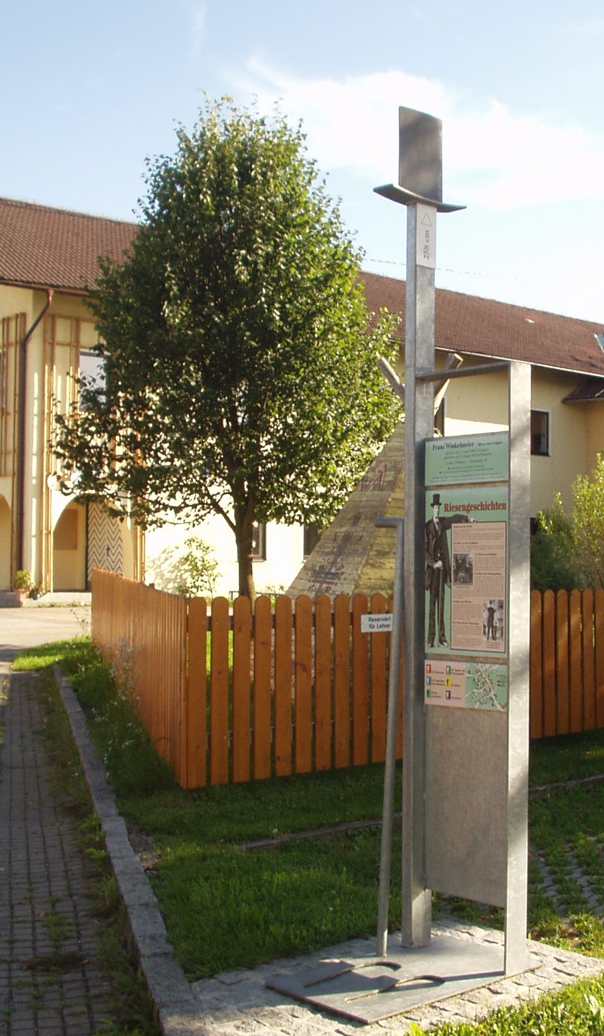 Monument to commemorate the 'Giant of Lengau'